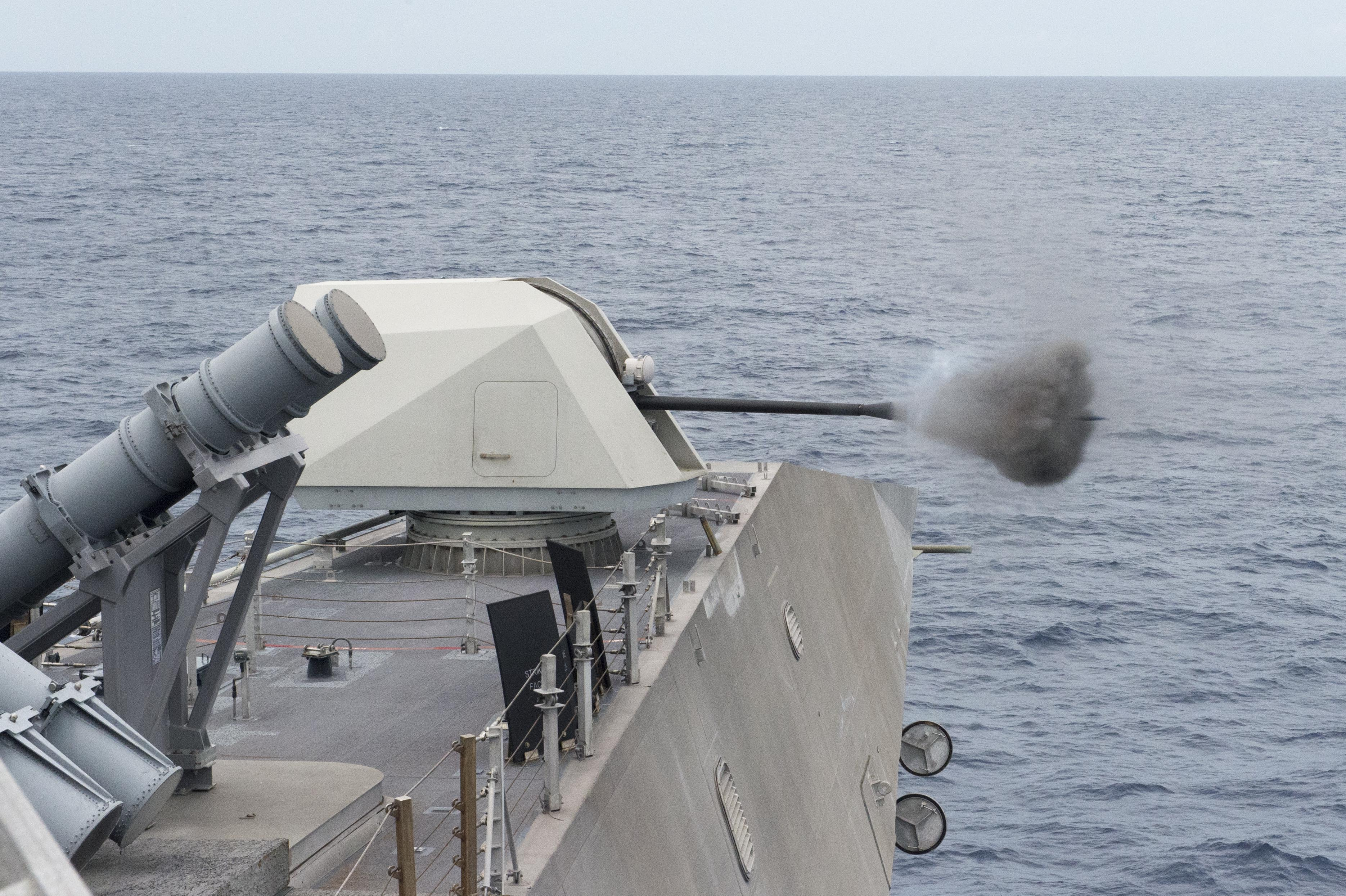 SOUTH CHINA SEA (July 11, 2017) The littoral combat ship USS Coronado (LCS 4) fires a Mark 110 57 mm gun during a live-fire exercise. Coronado is on a rotational deployment in U.S. 7th Fleet area of responsibility, patrolling the region's littorals and working hull-to-hull with partner navies to provide the U.S. 7th Fleet with the flexible capabilities it needs now and in the future. (U.S. Navy photo by Mass Communication Specialist 3rd Class Deven Leigh Ellis/Released)170711-N-PD309-023 Join the conversation: navylive.dodlive.mil